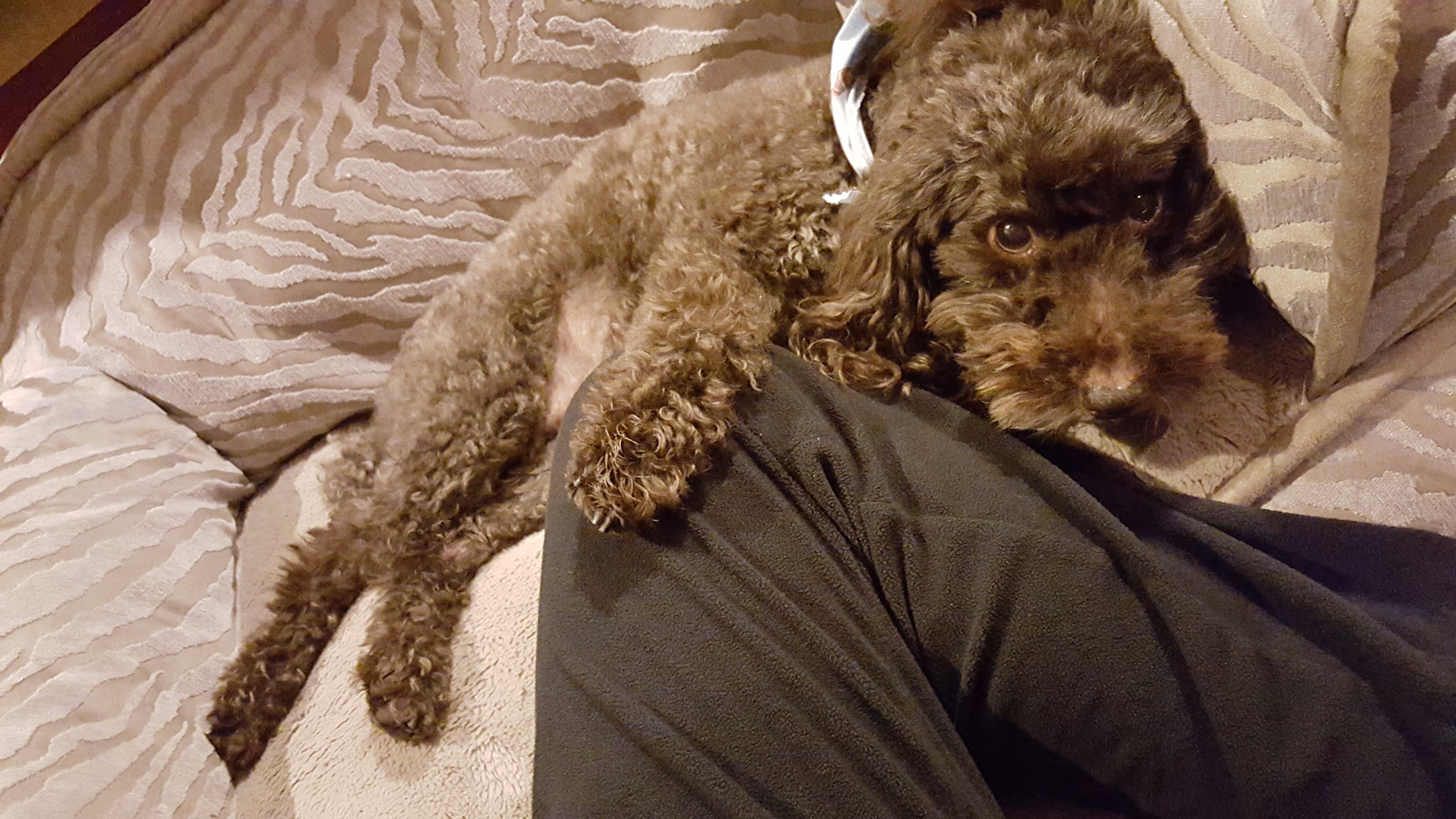 This photo depicts a domestic mini-poodle cuddling with a human.